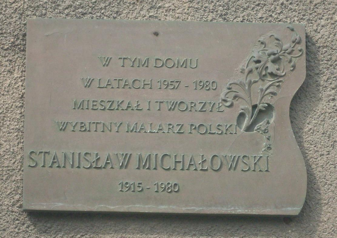 Plaque at Podwale Staromiejskie 89 Street in Gdańsk. Localise at house which he lived and painted.